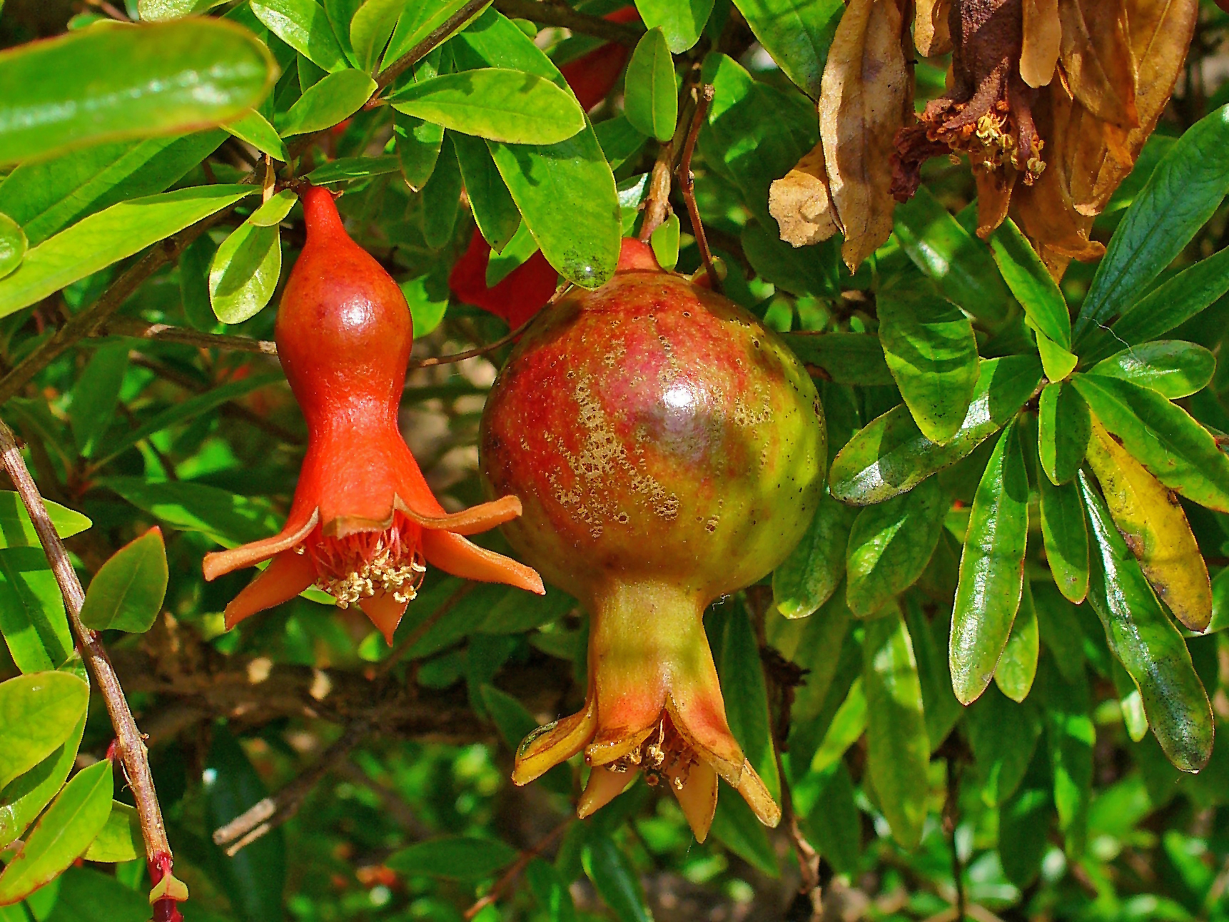 Punica granatum, Lythraceae, Pomegranate, developing fruits. Botanical Garden Karlsruhe, Germany.